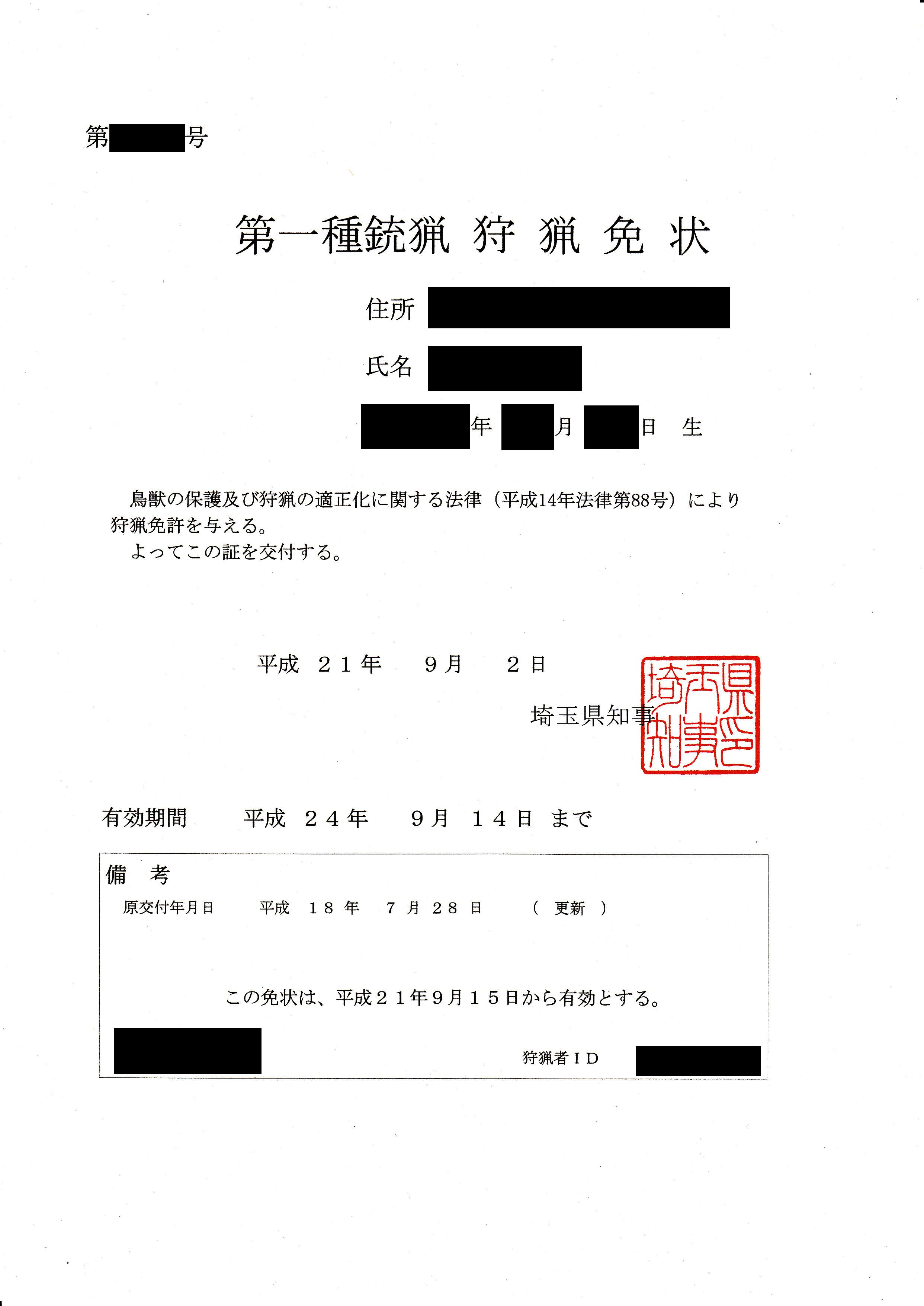 The Gun hunting license as First Category(Surface).